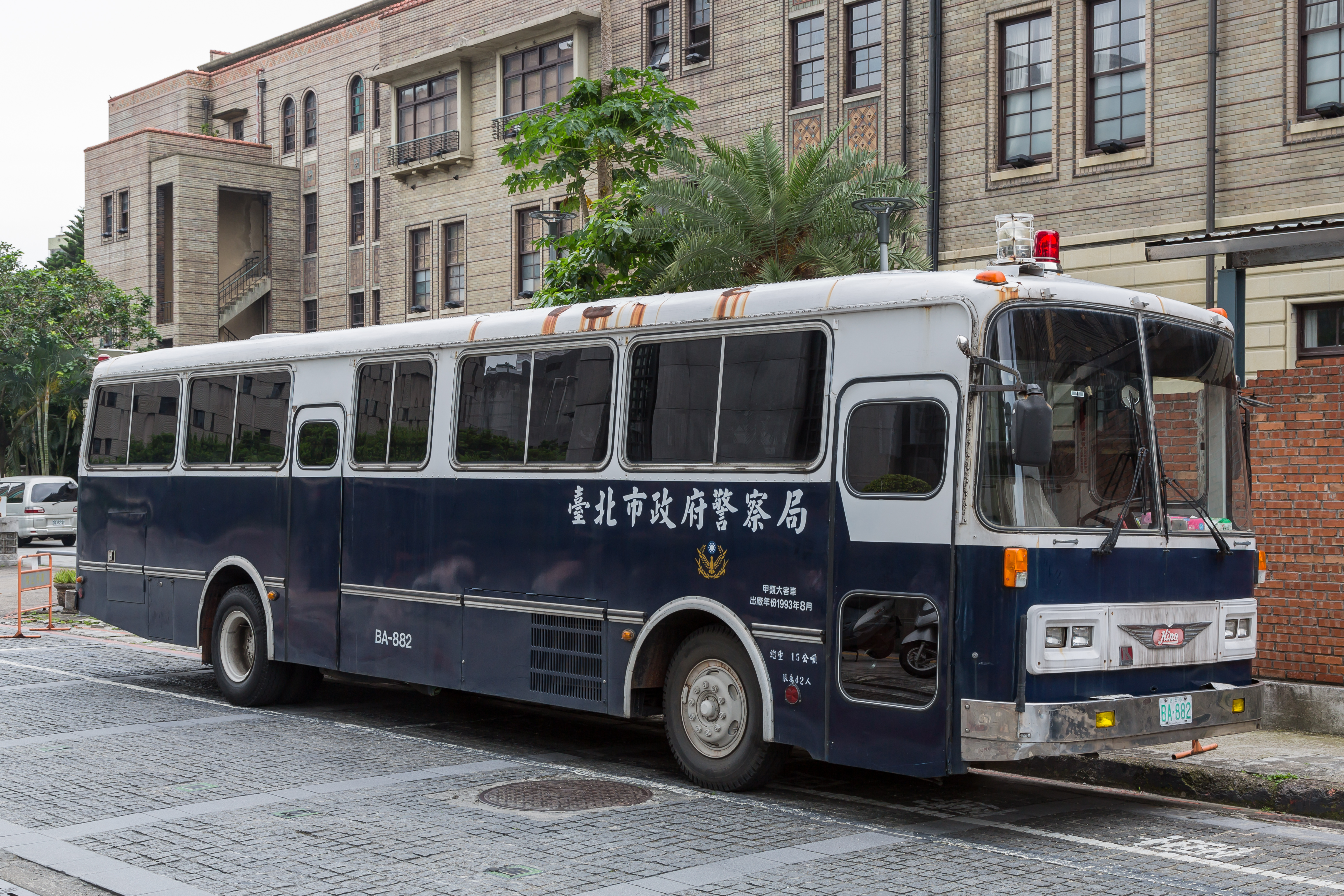 Taipei, Taiwan: Hino police bus of Taipei City Police Department BA-882, parking between Zhongshan Hall and Taipei City Police Department headquarters, with Hino Motors and Kuozui Motors trademarks. 中文（台灣）: 臺北市政府警察局日野警備車BA-882，停在臺北市政府警察局總局與臺北市中山堂之間，車頭釘掛日野汽車與國瑞汽車商標。